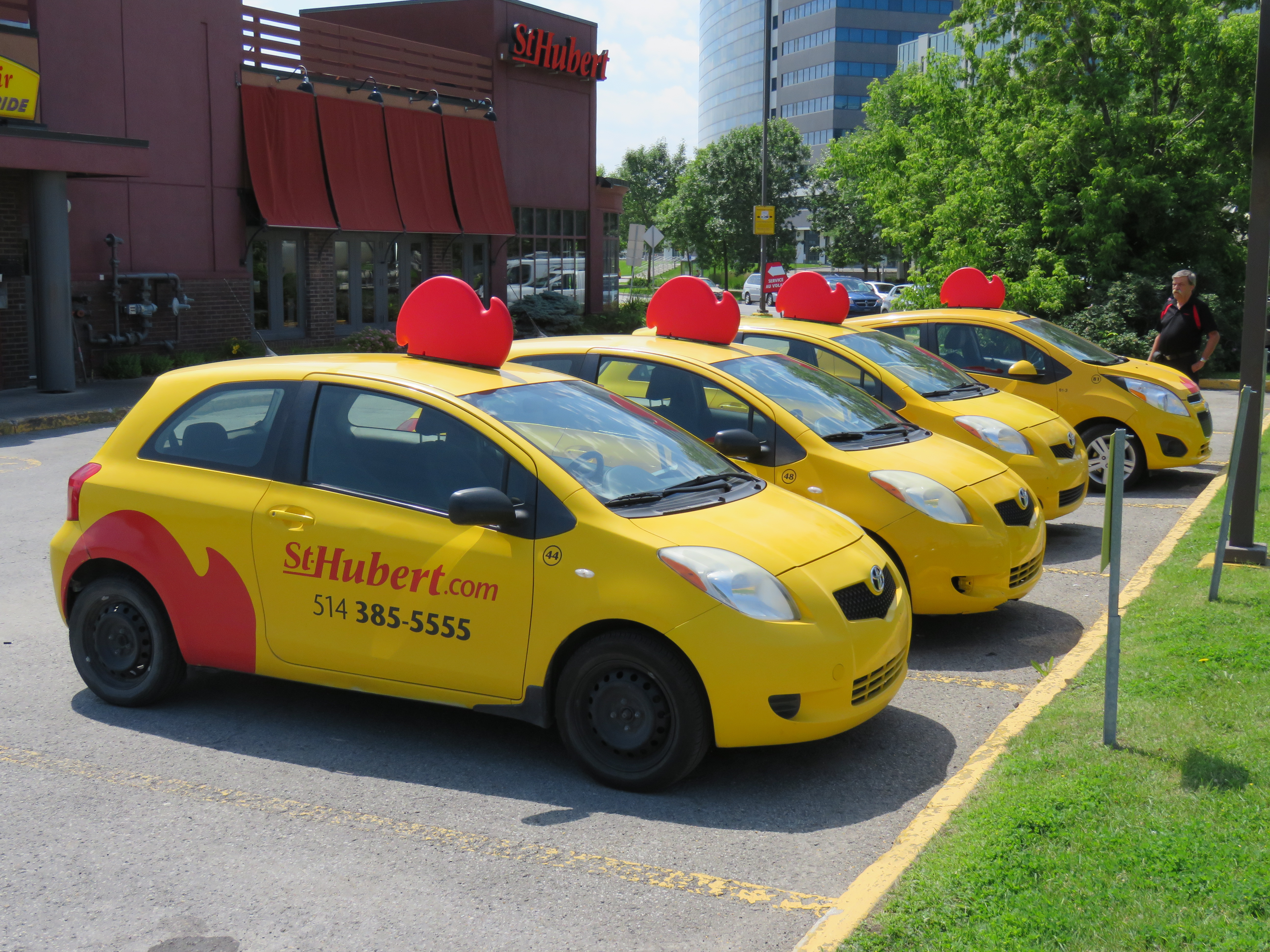 Delivery automobiles of St-Hubert restaurant, located at the corner of Saint-Martin and des Laurentides boulevards, Laval, Quebec.